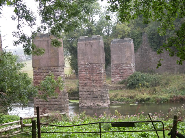 Disused railway viaduct piers near Fawley tunnel. As featured on the website